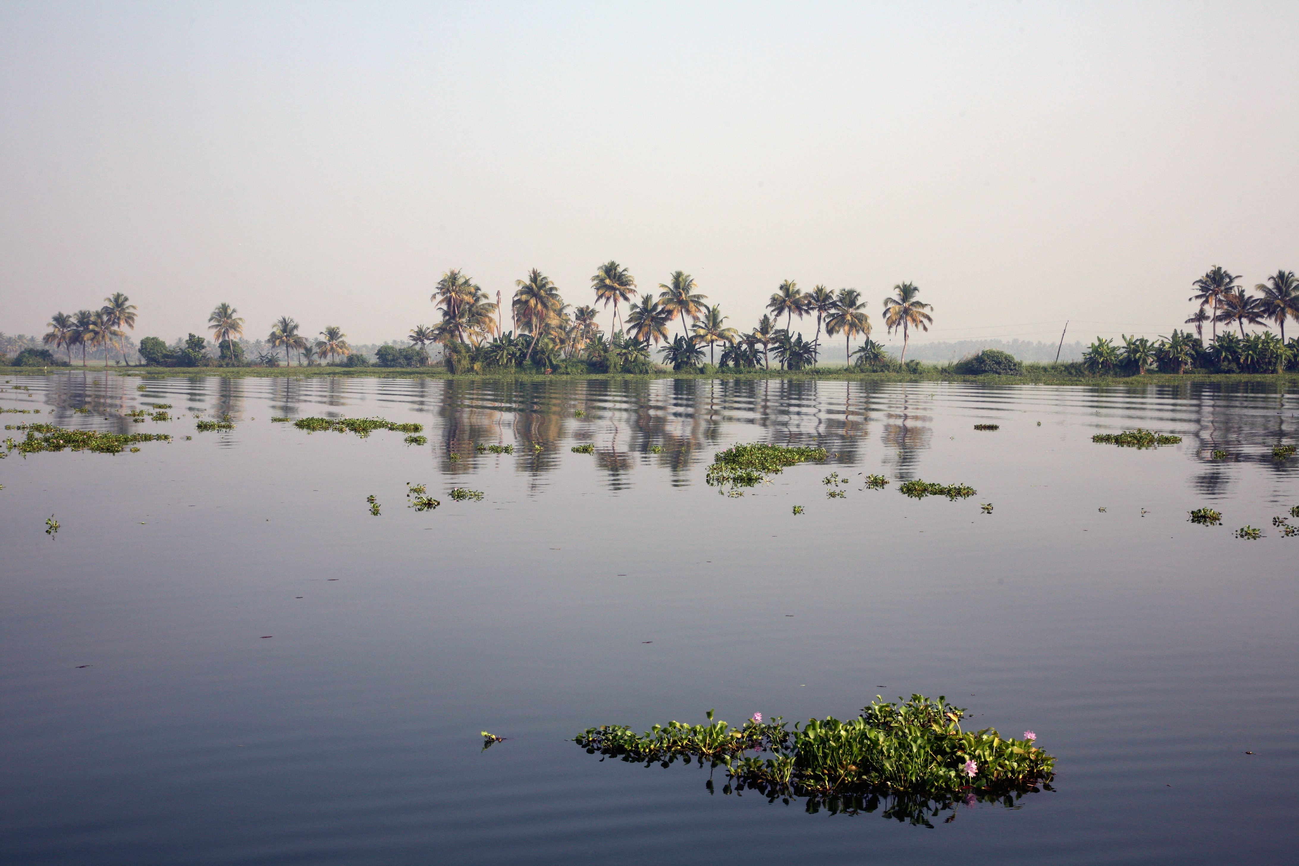 From the backwaters in Kerala.